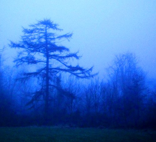 From my own collection